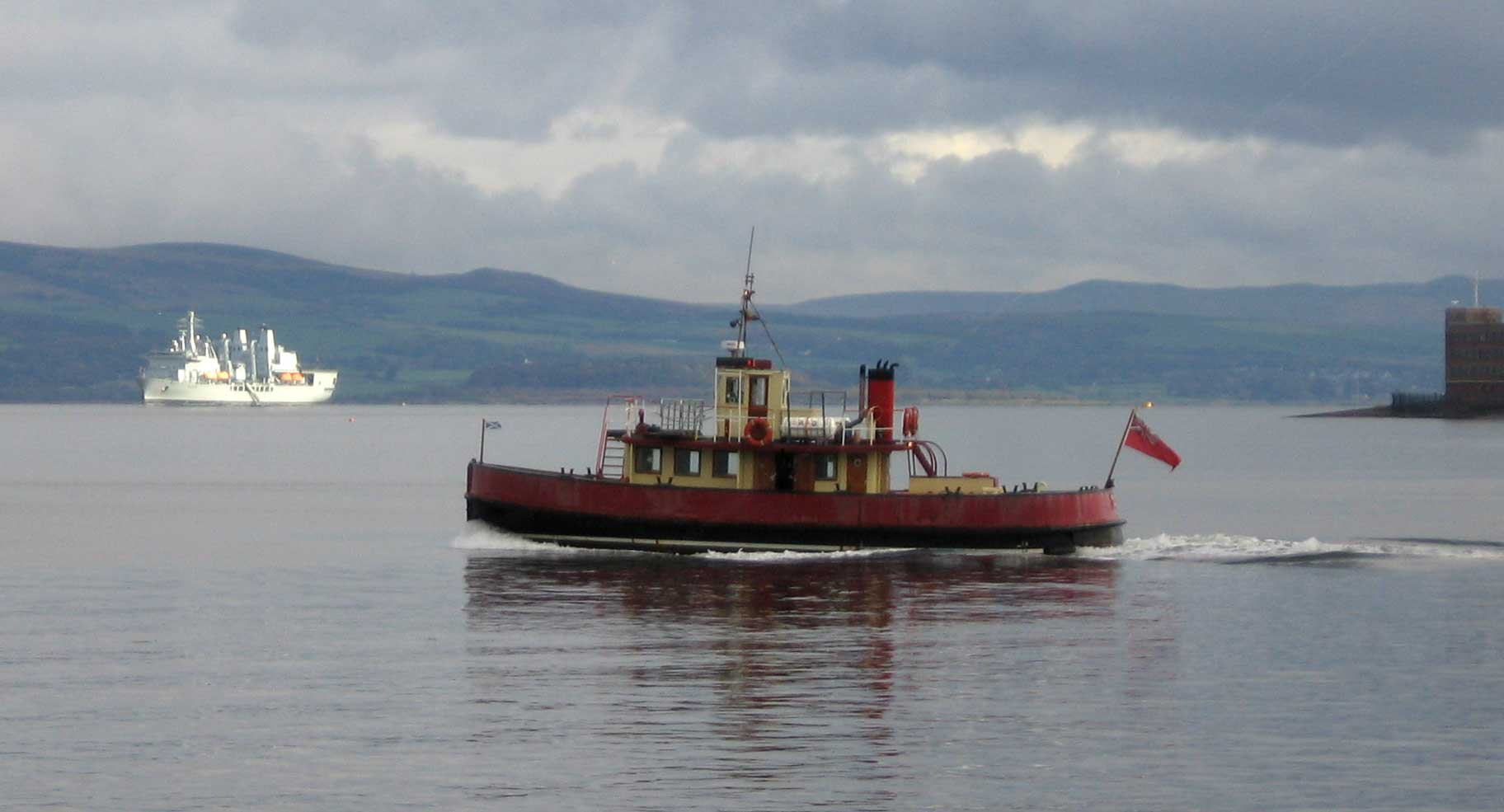 The ferry MV Kenilworth setting out from Gourock across the Firth of Clyde in Scotland. In the background RFA Fort George (A388) takes part in "Neptune Warrior" "NW 063" multinational training exercise: earlier the same day at 9.40 am BST the ferry was warned by a US Navy warship "'Unidentified vessel approaching on my starboard side, please identify yourself. If you fail to do so, we will open fire on you with live ammunition.'" Daily Record Ship 1932 Built by the Rowhedge Ironworks in Essex Length: 56 ft 300 passengers, History 1932 Named: Hotspur II 1978 Sold to Clyde owners Renamed: Kenilworth